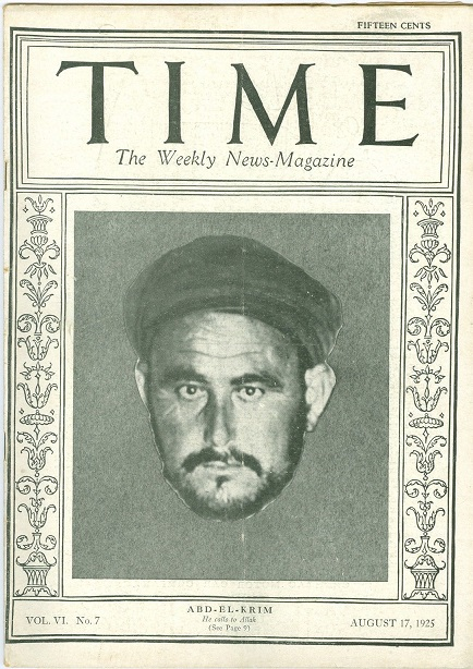 17 August 1925 cover page of TIME magazine showing Moroccan rebel Abd el-Krim.